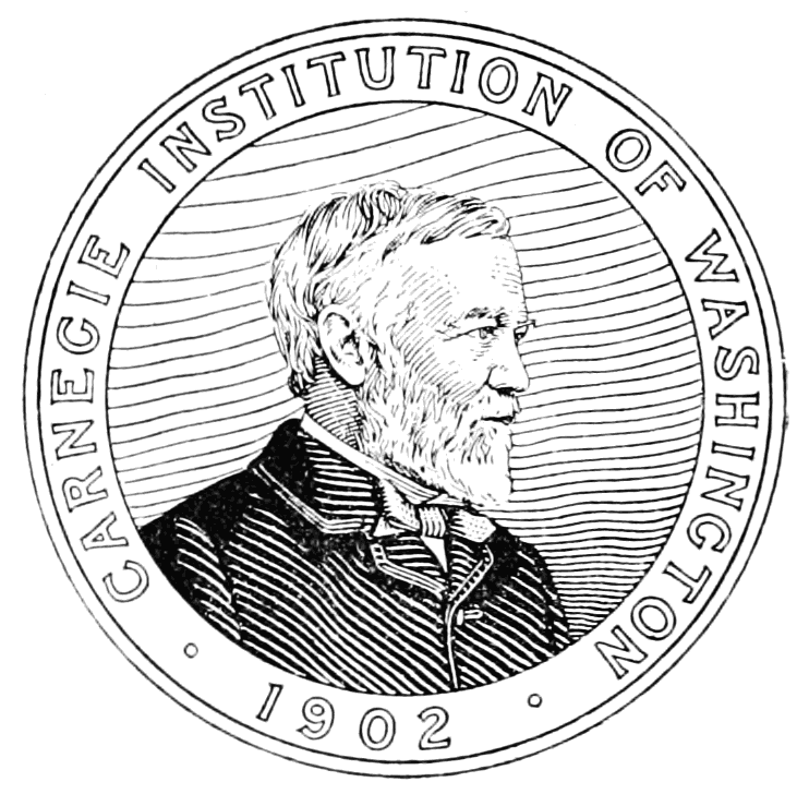 Seal of the Carnegie Institution